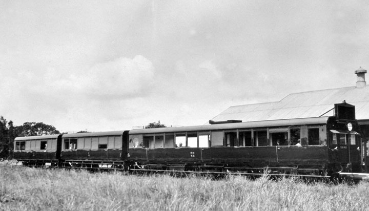 150hp Winton rail motor for Manly - Cleveland line, Cleveland, Redland. (Railway)